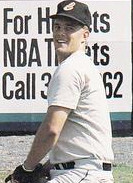 Professional baseball player Pete Harnisch